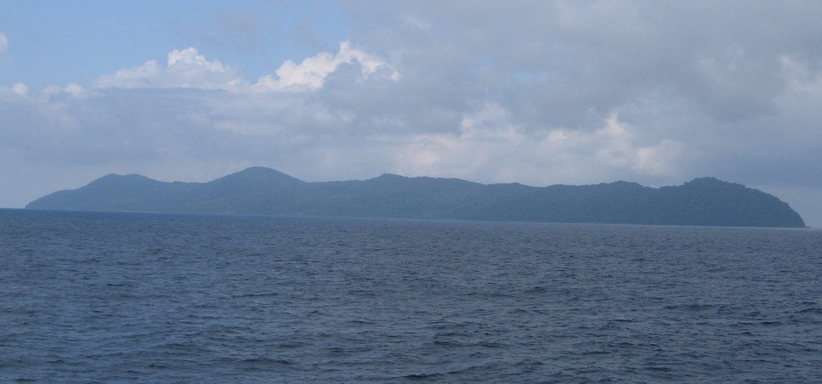 Gorgona Island approaching from the northeast